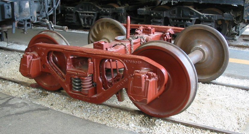 A Bettendorf style truck displayed at the Illinois Railway Museum.